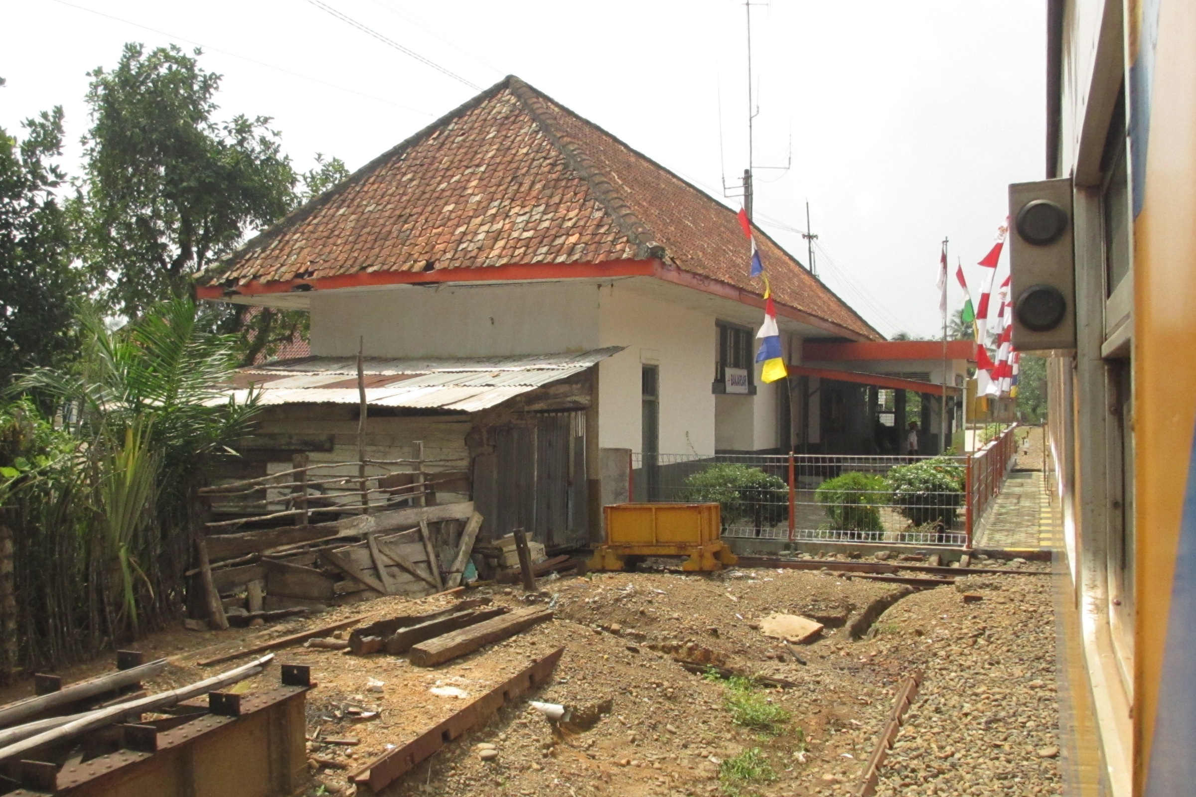 Banjarsari Railway Station, Lahat Regency, South Sumatra.